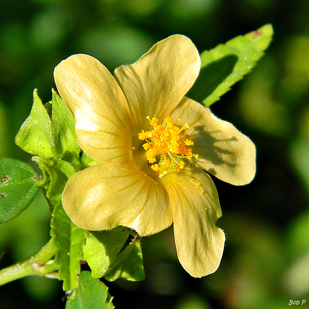 Time for another wonderful "weed"! Sida rhombifolia (Indian hemp, Teaweed) blooming at Frenchman's Forest Natural Area, Palm Beach County. Another Sida species (S. acuta) lives here as well but I think this one is S. rhombifolia. This plant is often listed as native but grows in over 70 countries and was apparently introduced into the United States in the 1800's as a fiber crop. It is in the mallow family and the entire plant is loaded with wondrous chemicals that have made it an important medicinal plant worldwide, especially in Ayurvedic medicine. They include ephedrine, beta-phenethylamine (PEA-the main protagonist in the "chocolate theory of love" in the 80's) and pseudoephedrine, to name just a few. They are also loaded with nutrients. The list of medicinal uses is large and surprising. It is not related to hemp at all but the stems do yield a very good fiber.